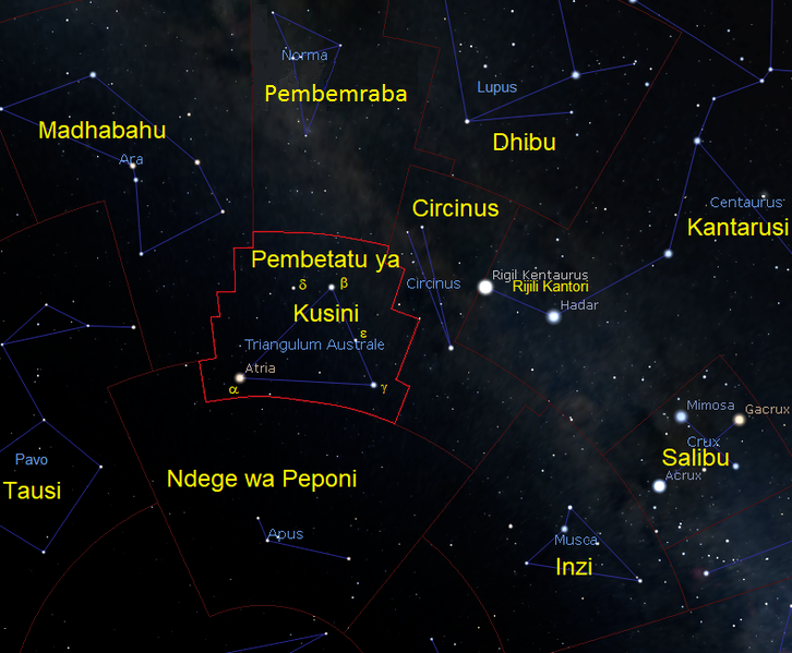 Constellation Norma as seen from Tanzania, Swahili labelled Kiswahili: Kundinyota Kipimapembe (Norma) jinsi inavyoonekana kutoka Tanzania, majina kwa Kiswahili